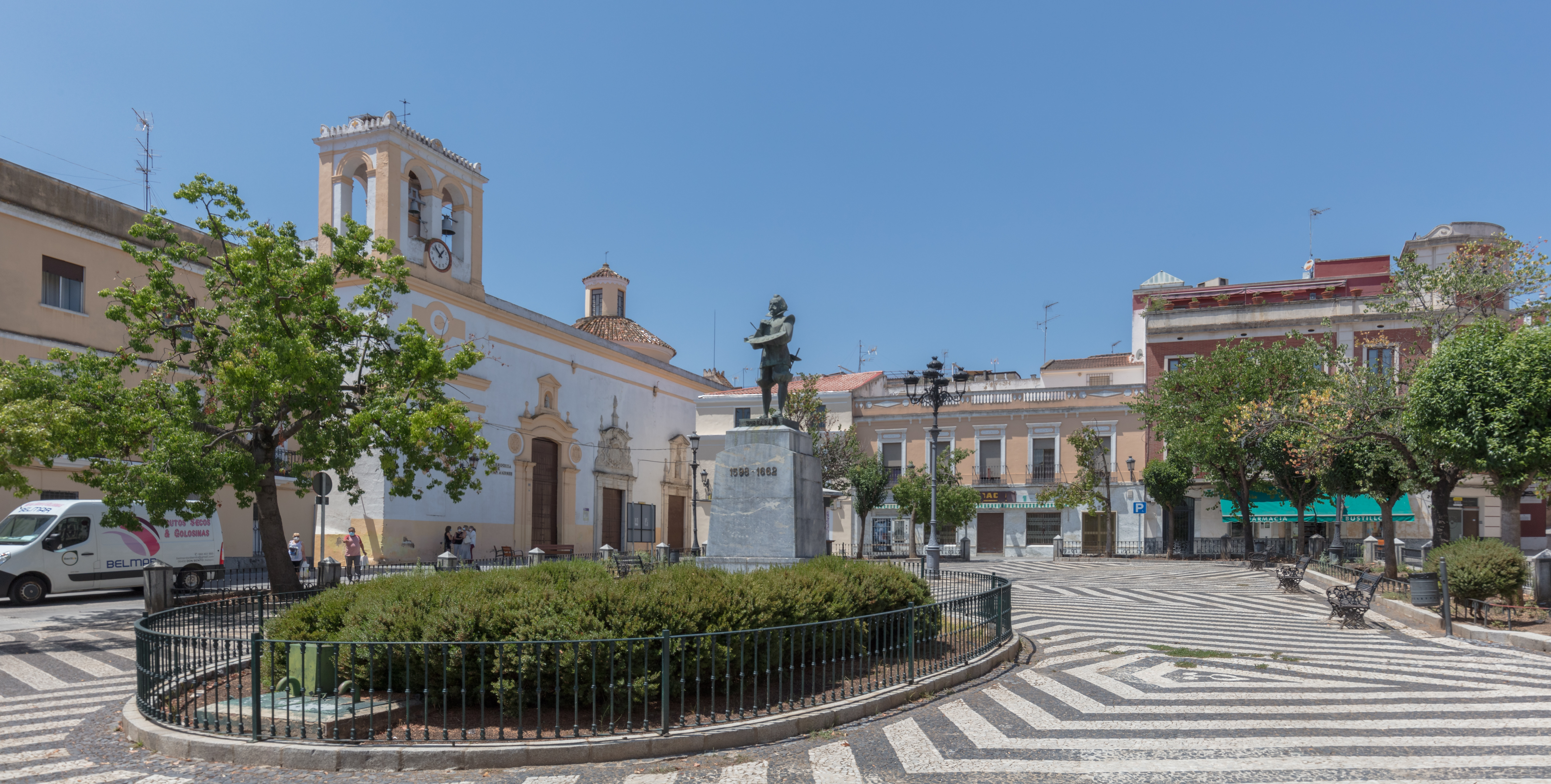 Cervantes square, Badajoz, Spain